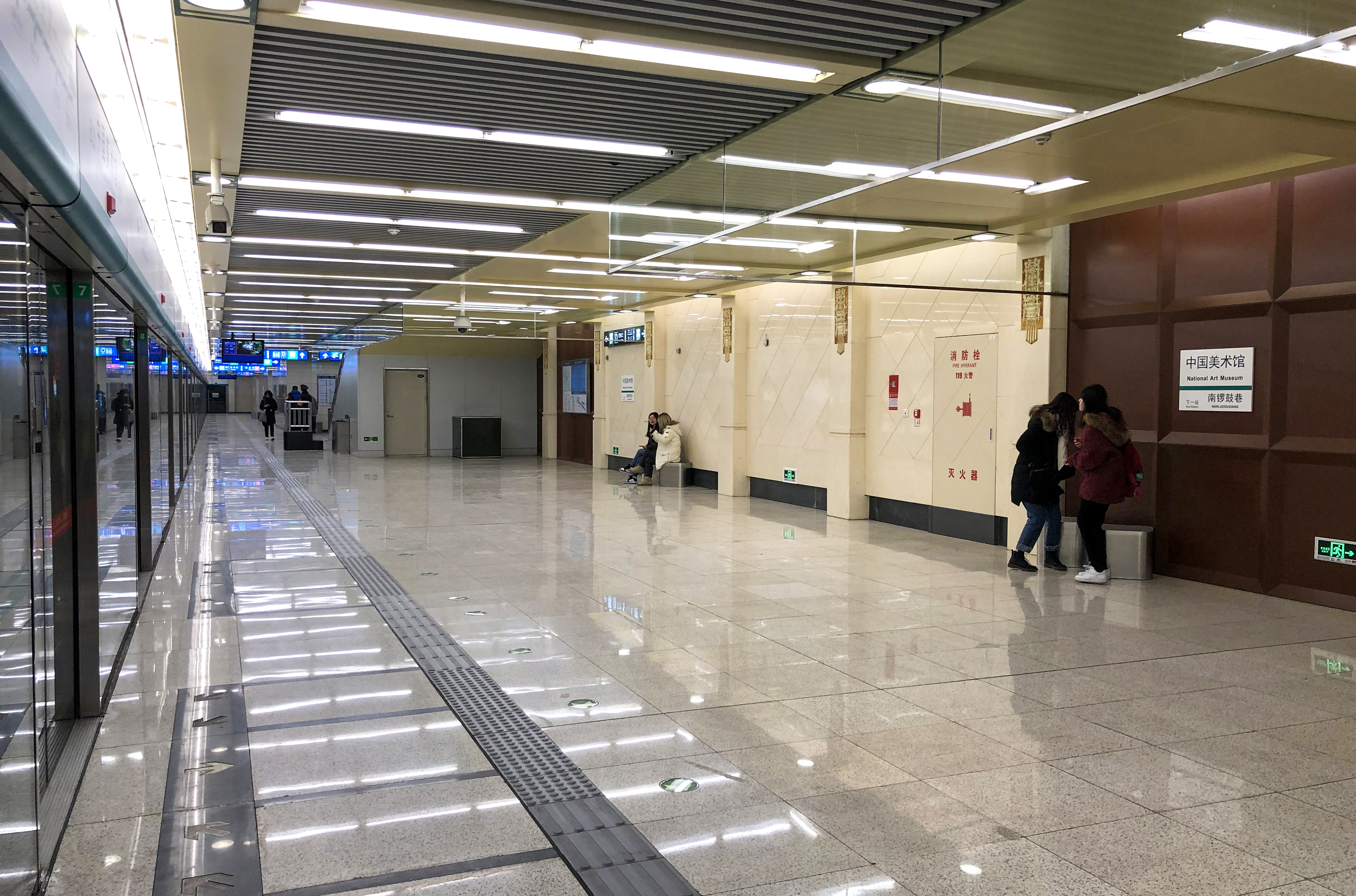 This platform is on the northeast.